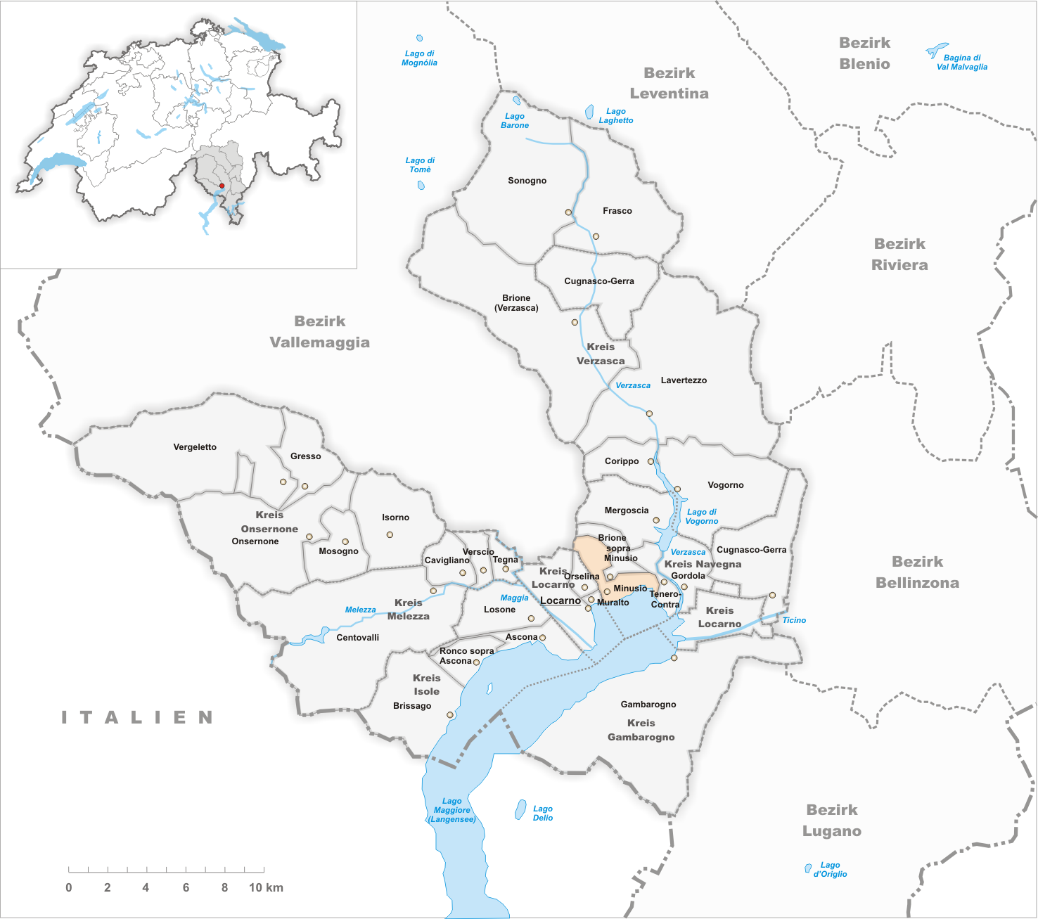 Municipality Minusio Artist: Tschubby